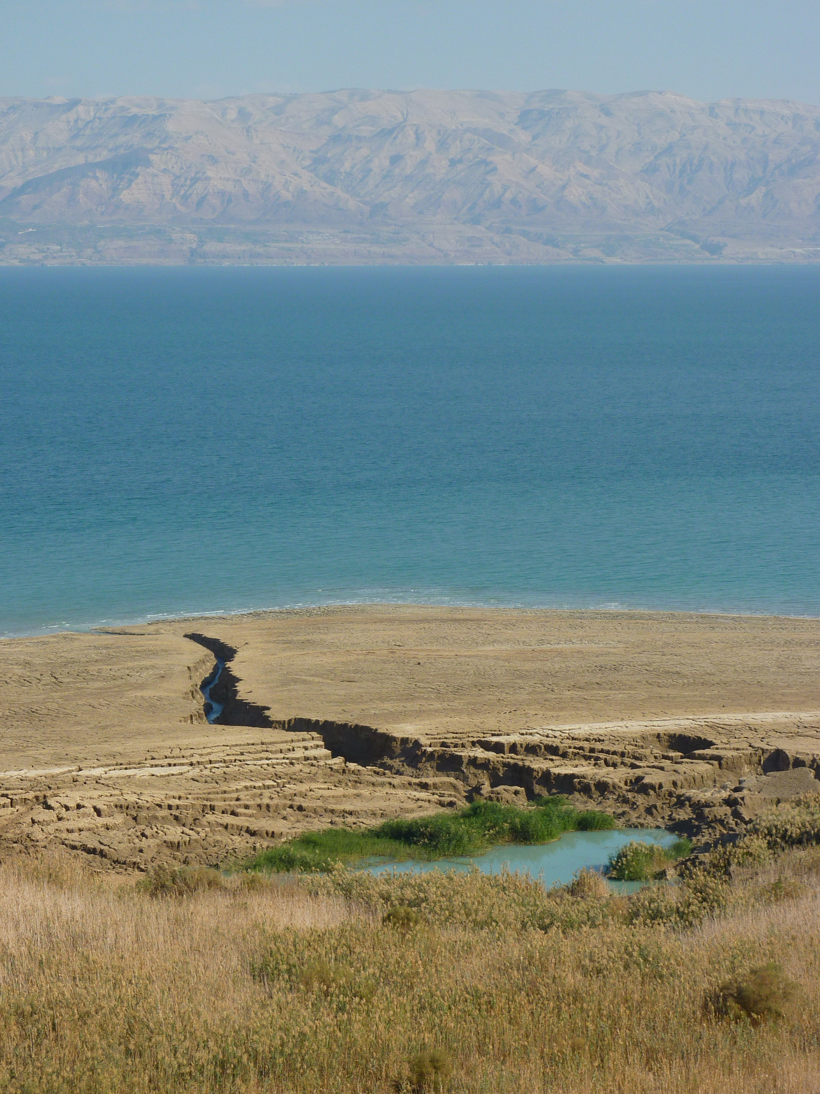 Dead Sea